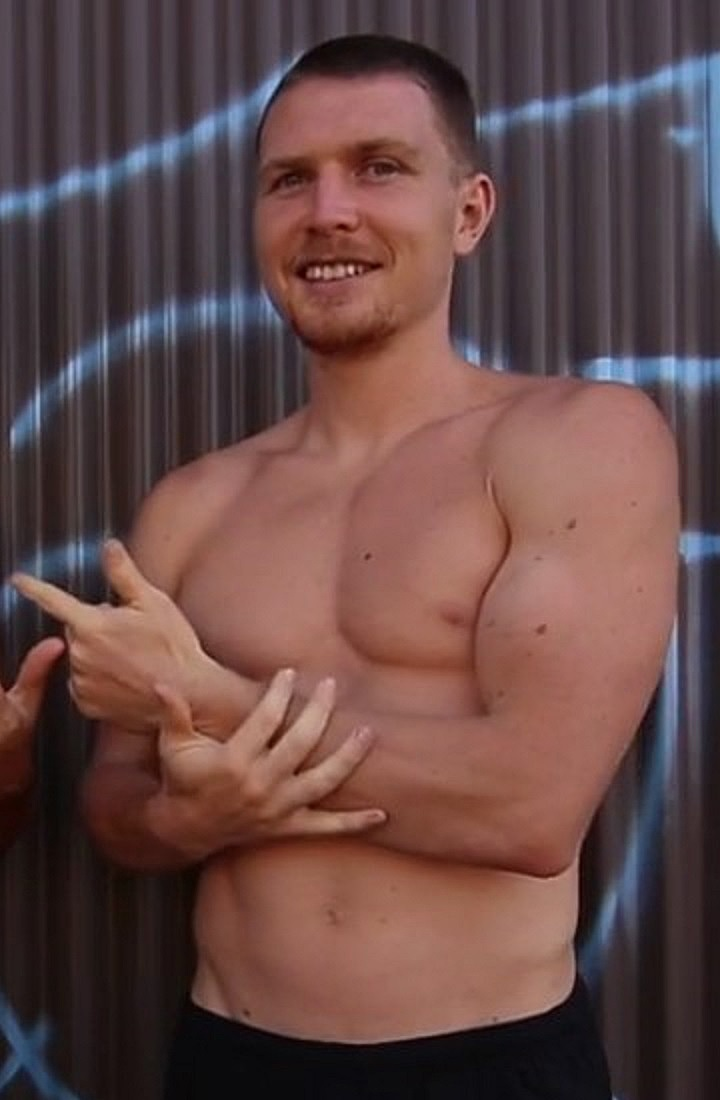 Ted Carr and Tim Shieff in a YouTube video discussing Fruitarianism.